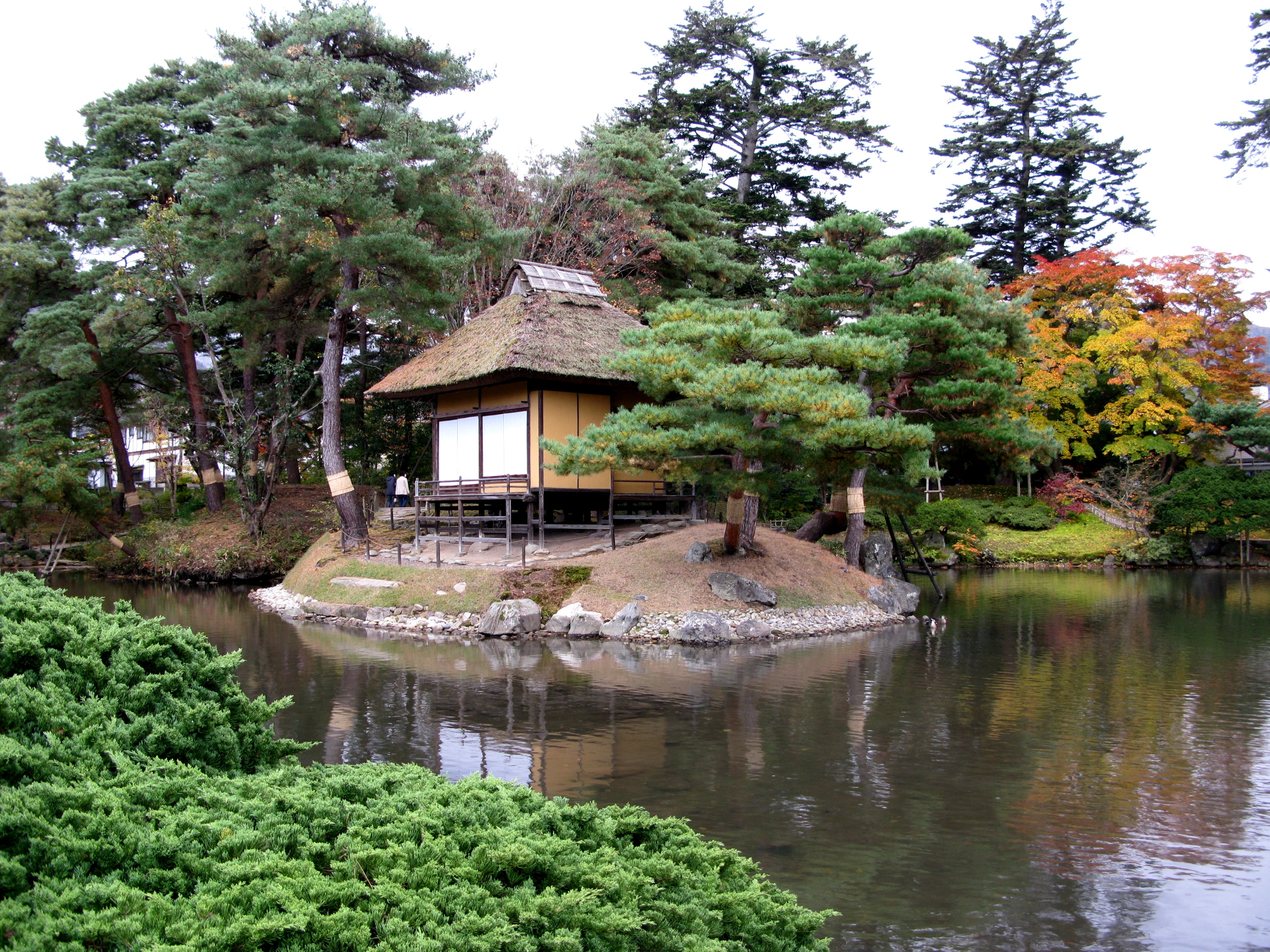 Aizu Matsudaira's Royal Garden, Aizuwakamatsu city, Fukushima pref., Japan